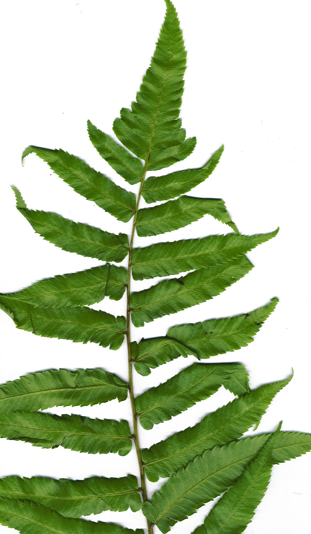 Diplazium esculentum (plant). Location: Maui, Hana Hwy